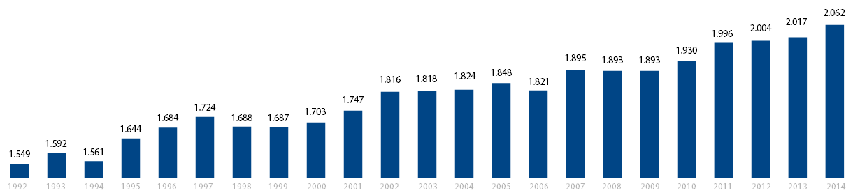 Population growth dynamics in Tasiilaq, Greenland. Numbers from 1991-2010 from Statistics Greenland. ( The graph is own work.